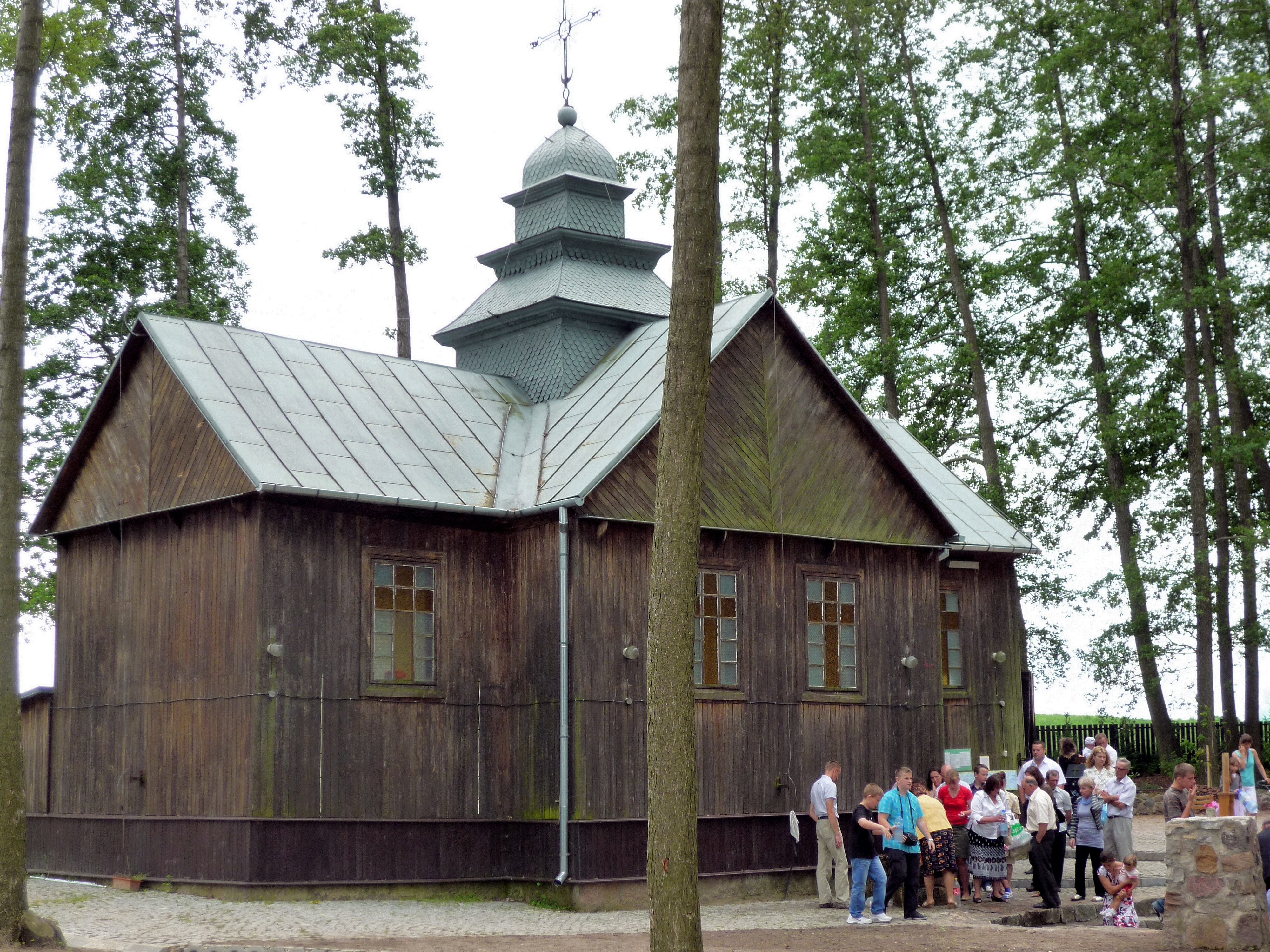 Sanctuary in Hodyszewo, Polonia - wooden, secondary church